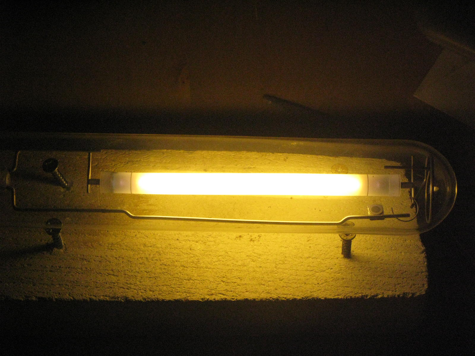 600W SON Master PIA in operation pictured through ND4 filter.